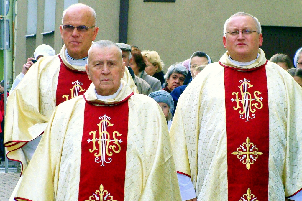 Adam Sudoł (provost)